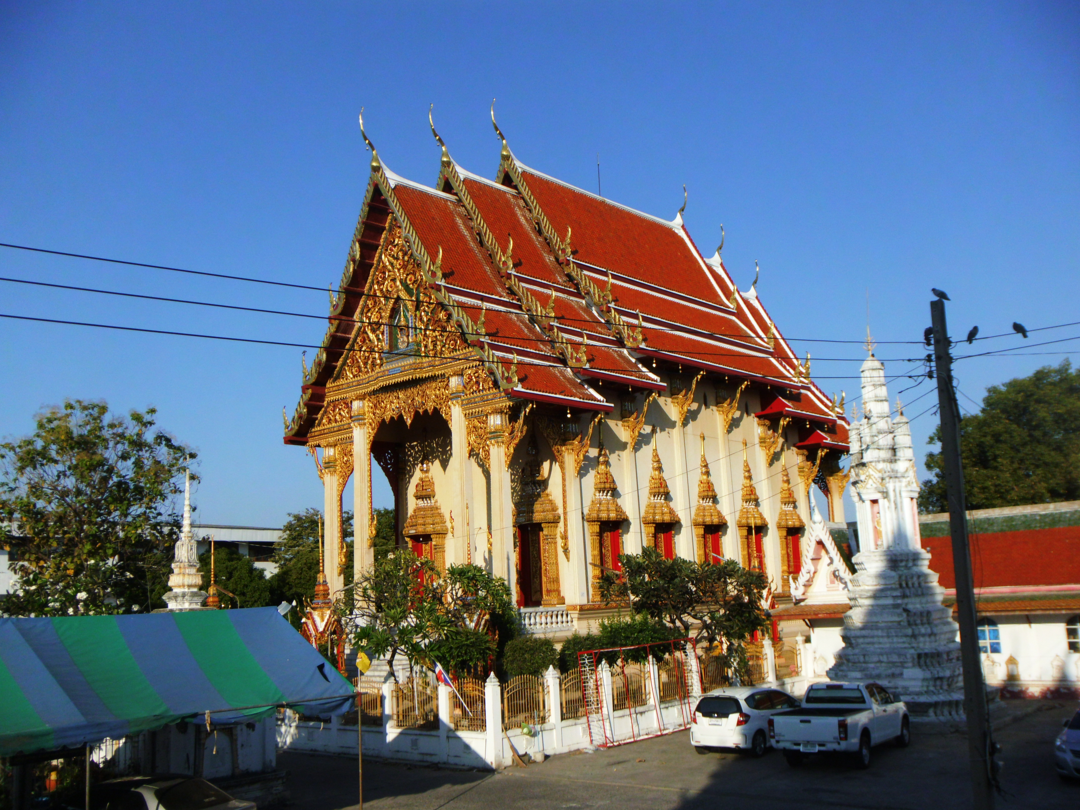 วัดกลางวรวิหาร